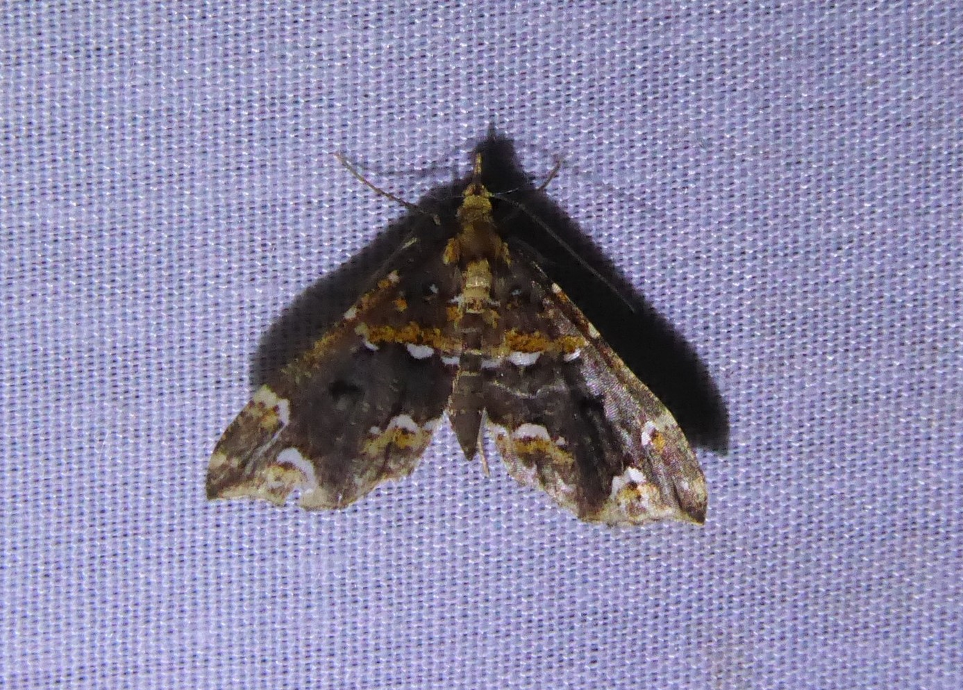 Psaliodes spp. Species of insect in the genus Psaliodes.